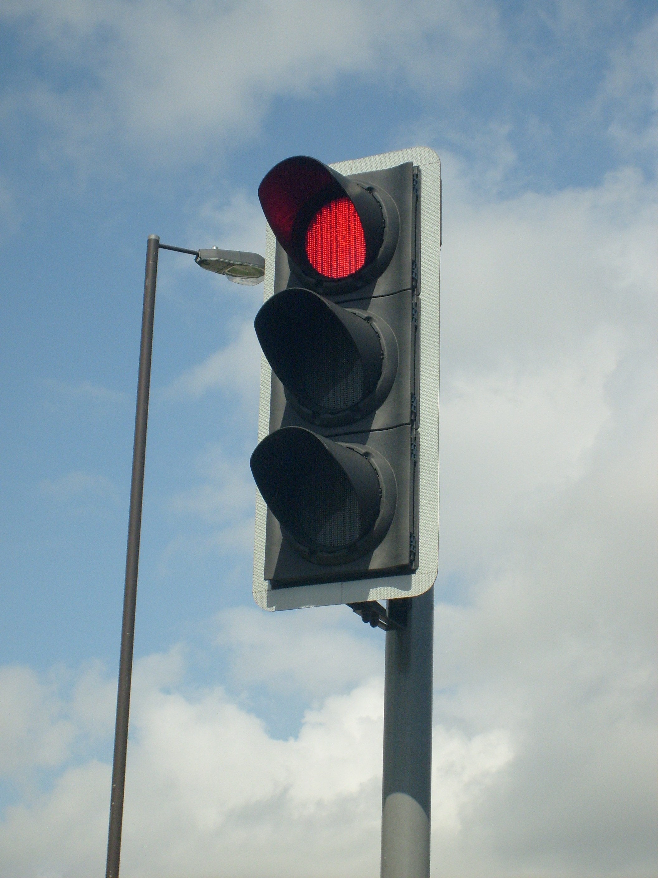 A modern British LED Traffic Light (Siemens Helios Mk1 LED) in Portsmouth.